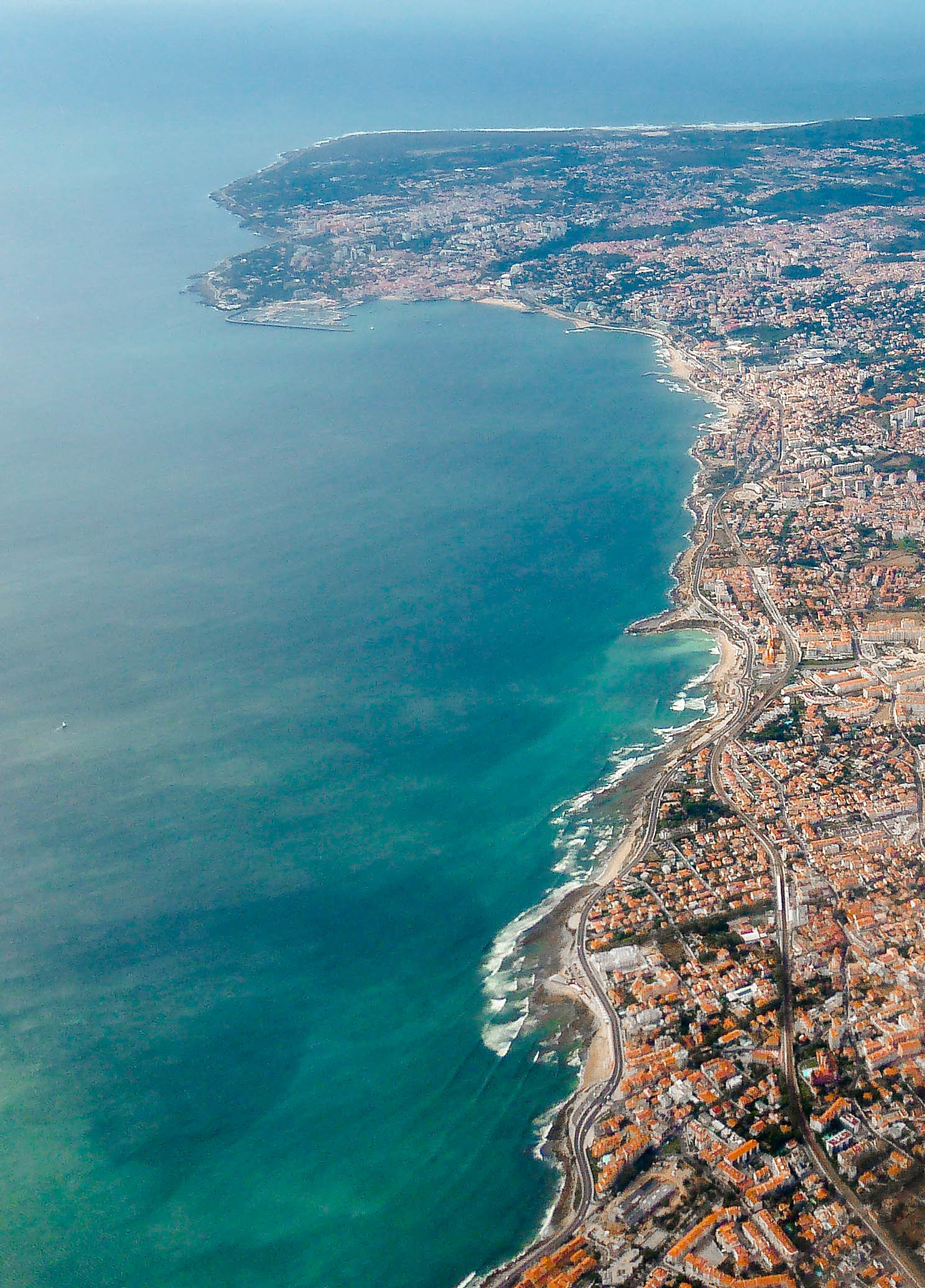 Aerial photograph of Lisbon to the west